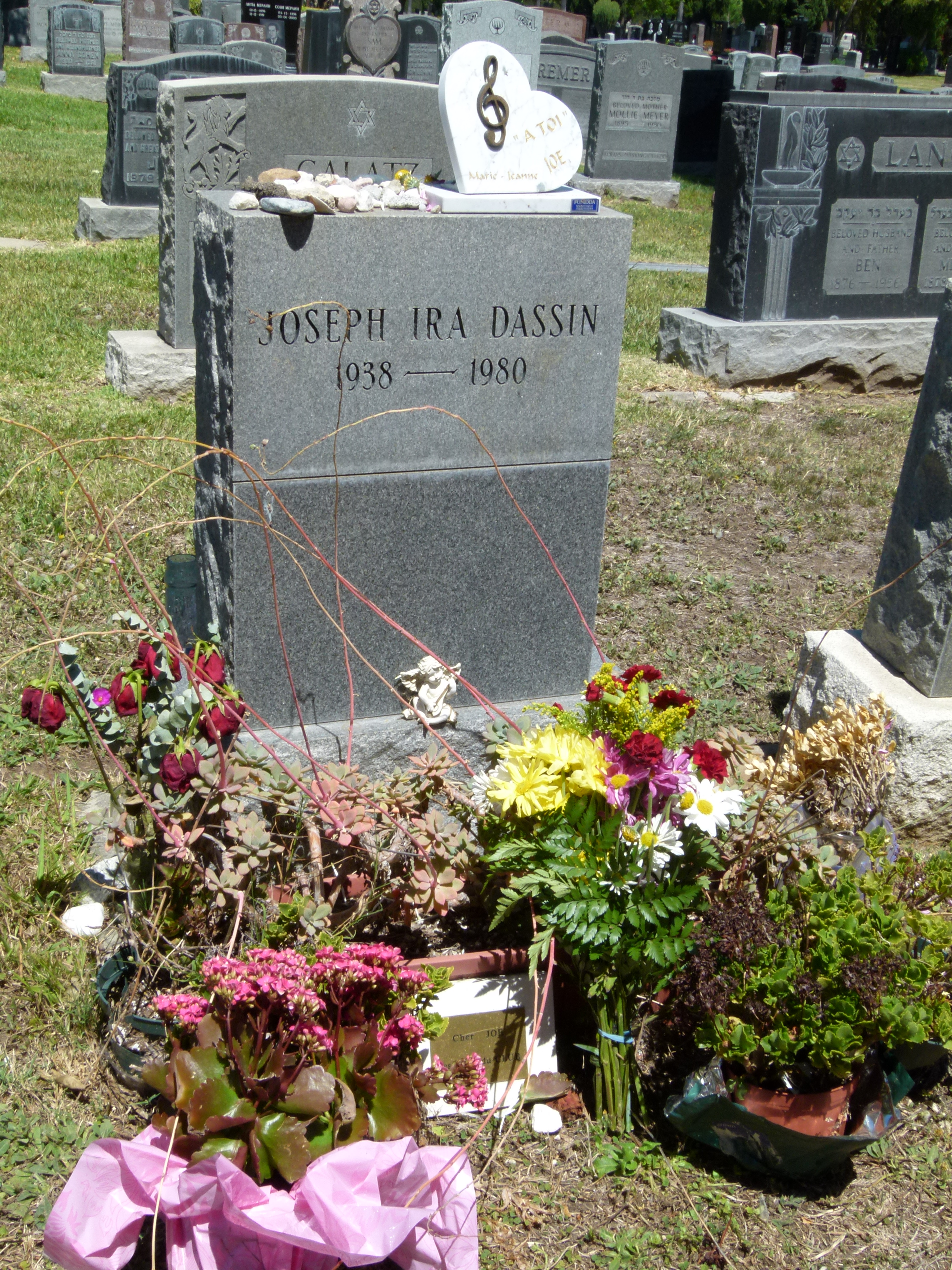 The tomb of French-American singer Joe Dassin at section 14 of Hollywood Forever Cemetery, Los Angeles, California.